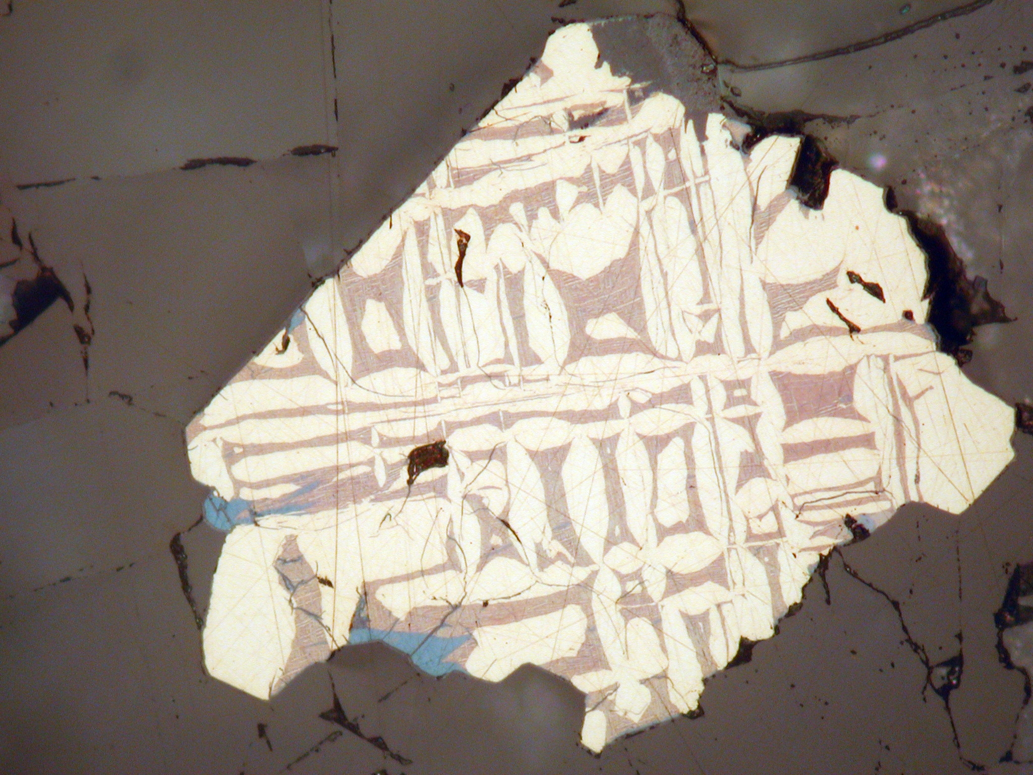 Chalcopyrite (yellow) crystal with bornite (brown) exsolutions in barite (dark grey) matrix, minor replacement by covellite (blue) Mt Mulga barite mine, Olary region, South Australia Image width: 0.74mm